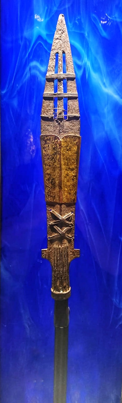 Copy of the Holy Lance aka Saint Maurice's Spear, Wawel Cathedral Museum